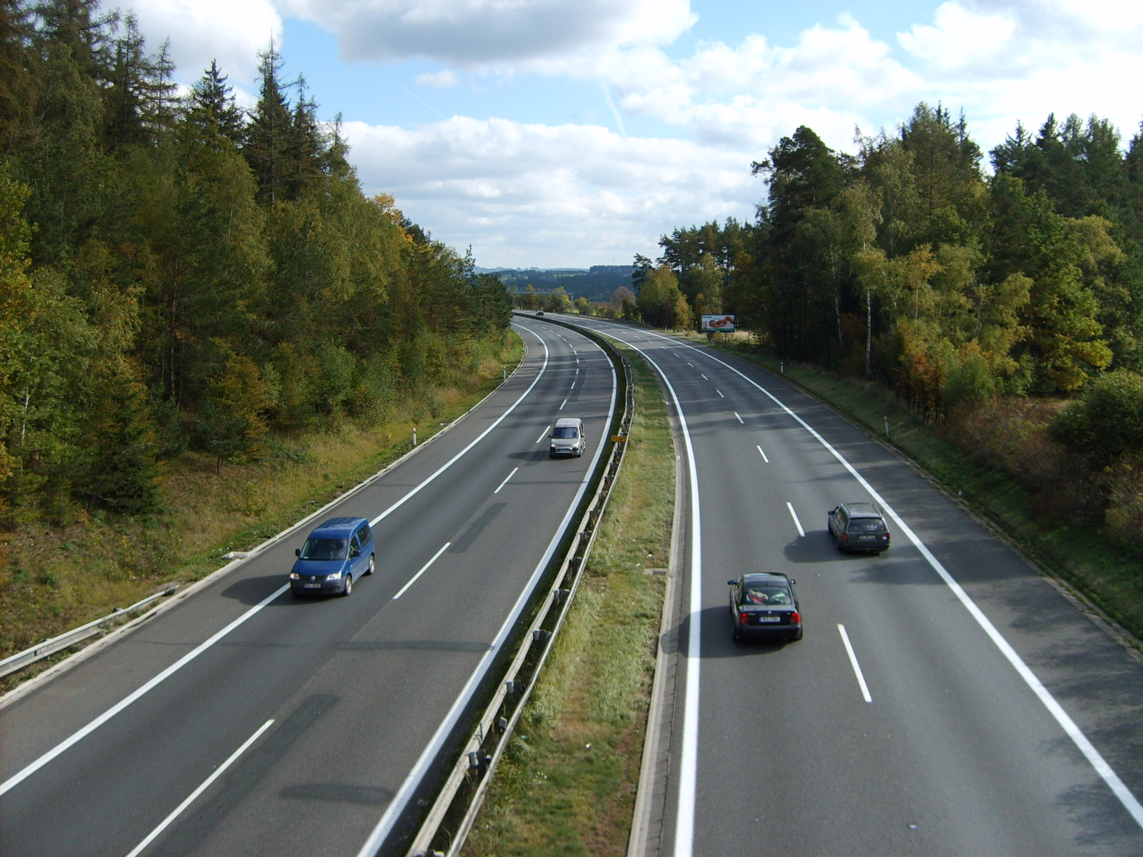 Highway D1 in the Czech Republic near Studený (km 75)